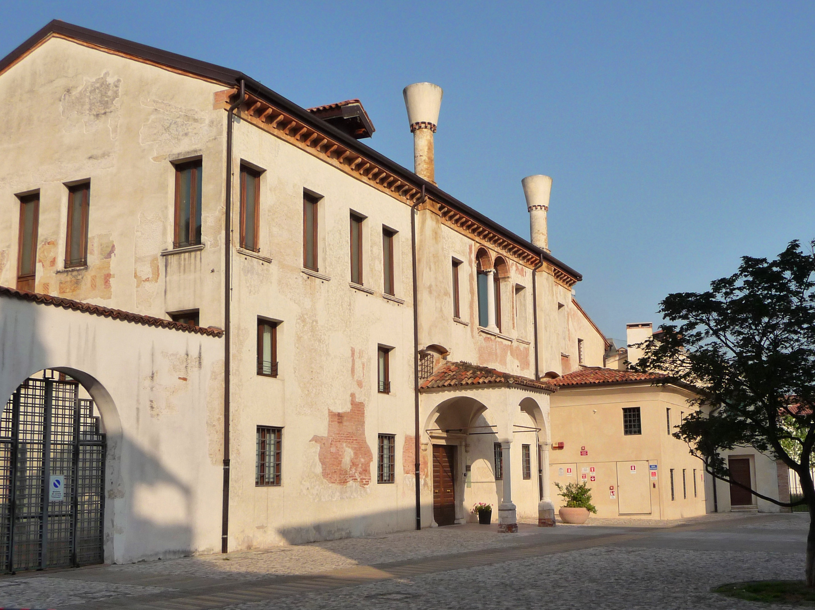 facade of the convento di Santa Maria, in Treviso (IT)